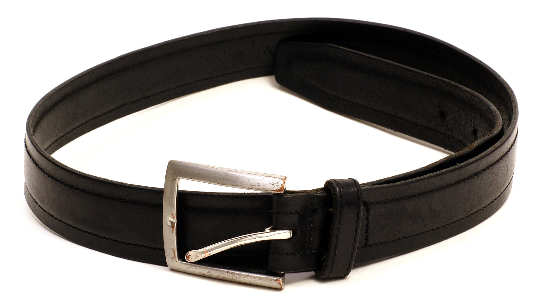 A worn, black leather belt with buckle.